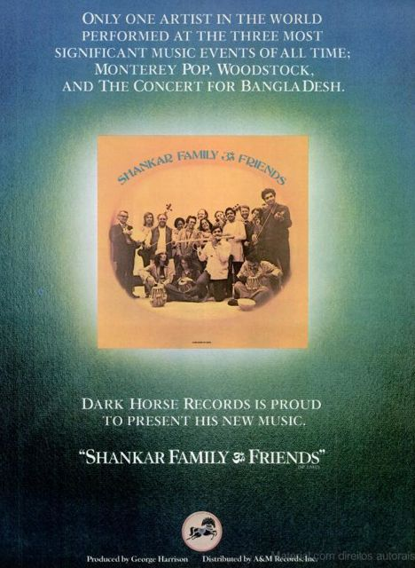 Trade ad for Ravi Shankar's Shankar Family & Friends album 1974